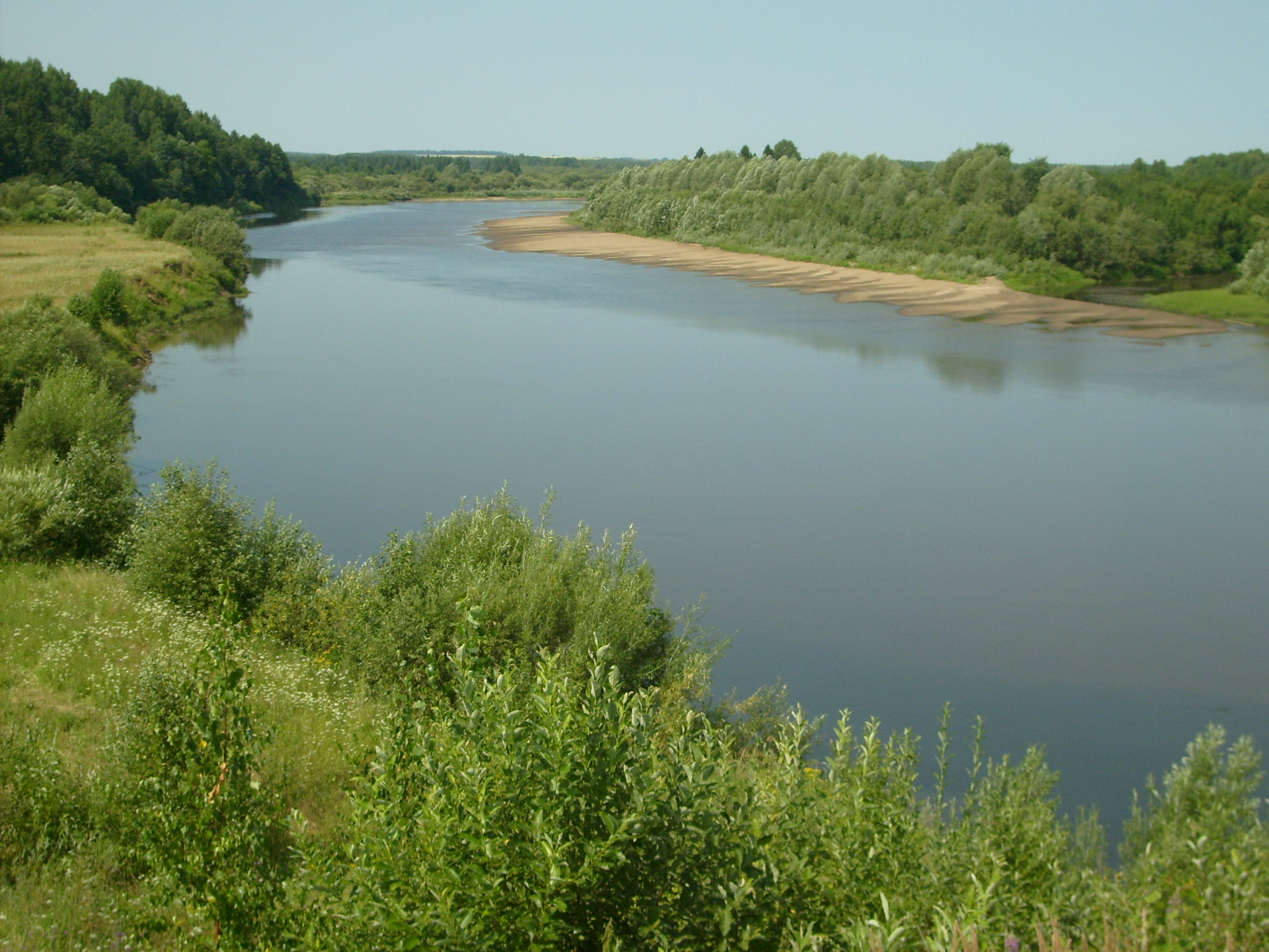 River Moloma near the crossing with the road A119 "Vyatka"